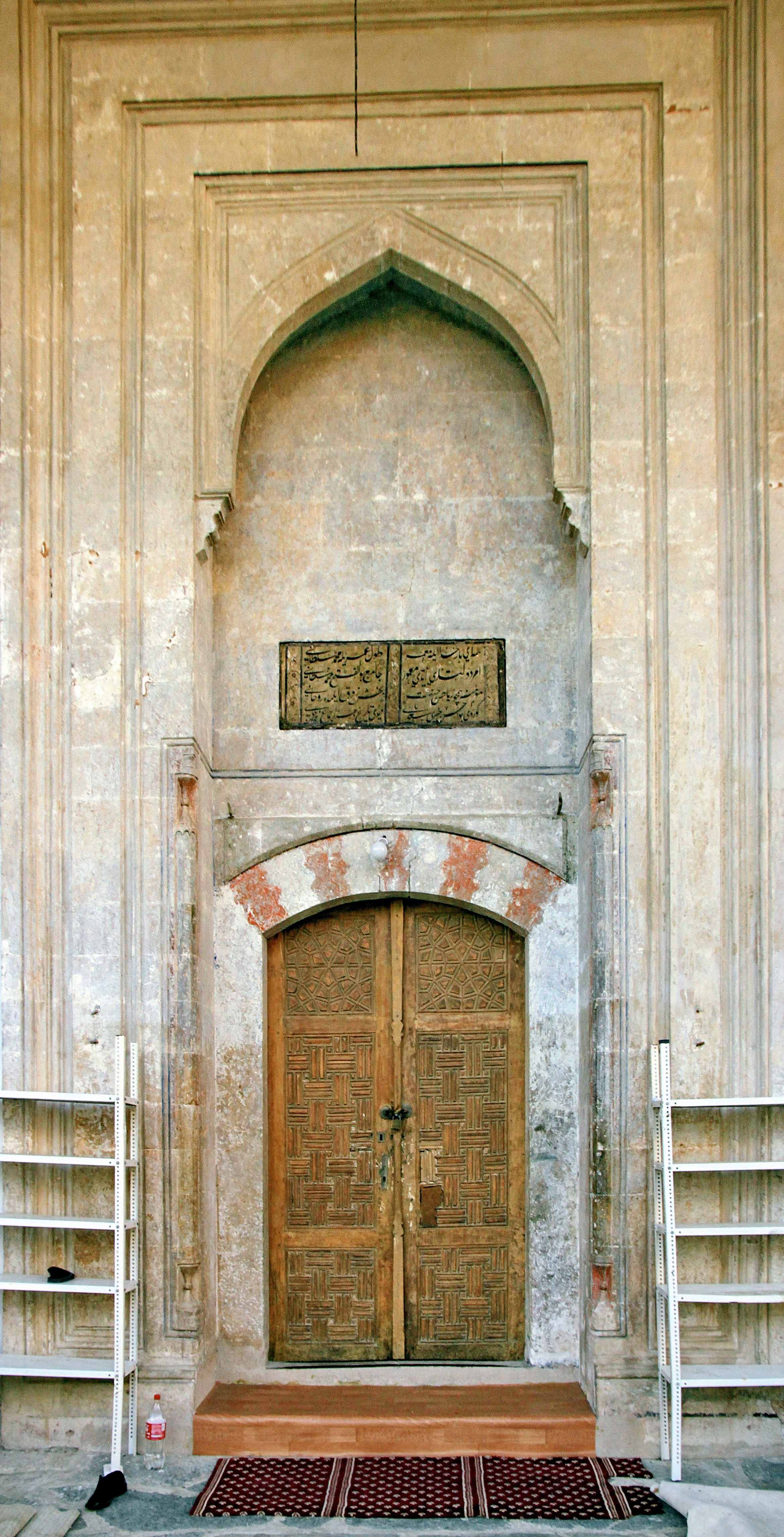 Sultan Mehmet Mosque (Fatih Mosque). Pristina, Kosovo